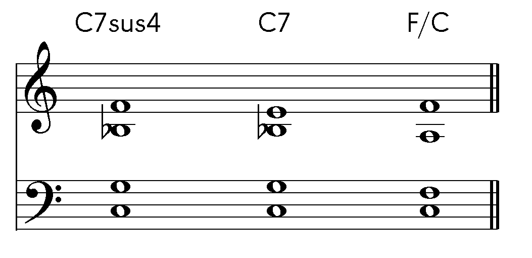 sus chord, dominant seventh chord, tonic 6/4-chord in open position